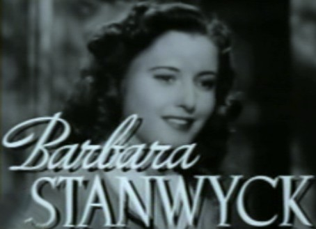 Cropped screenshot of Barbara Stanwyck from the trailer for the film The Gay Sisters